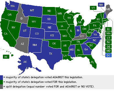 Map detailing the Emergency Economic Stabilization Act of 2008 second House vote.